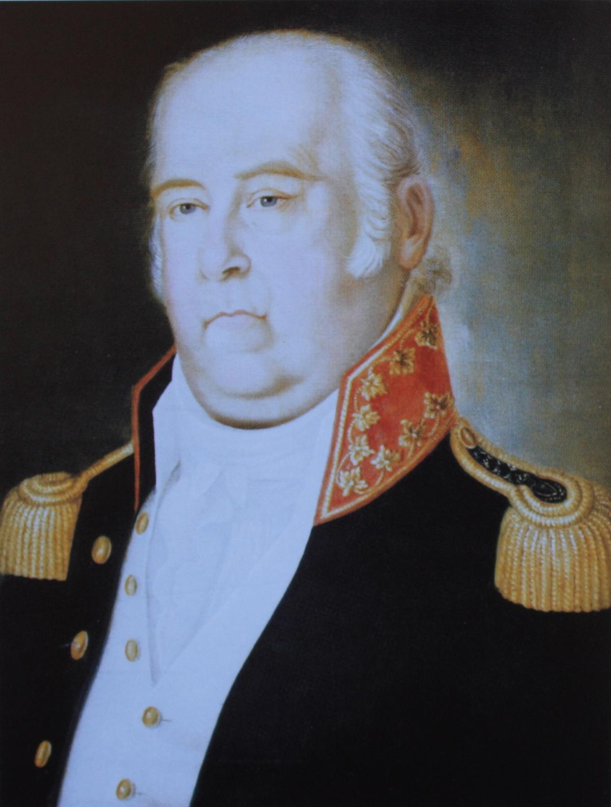 Carl Heinrich von Elterlein